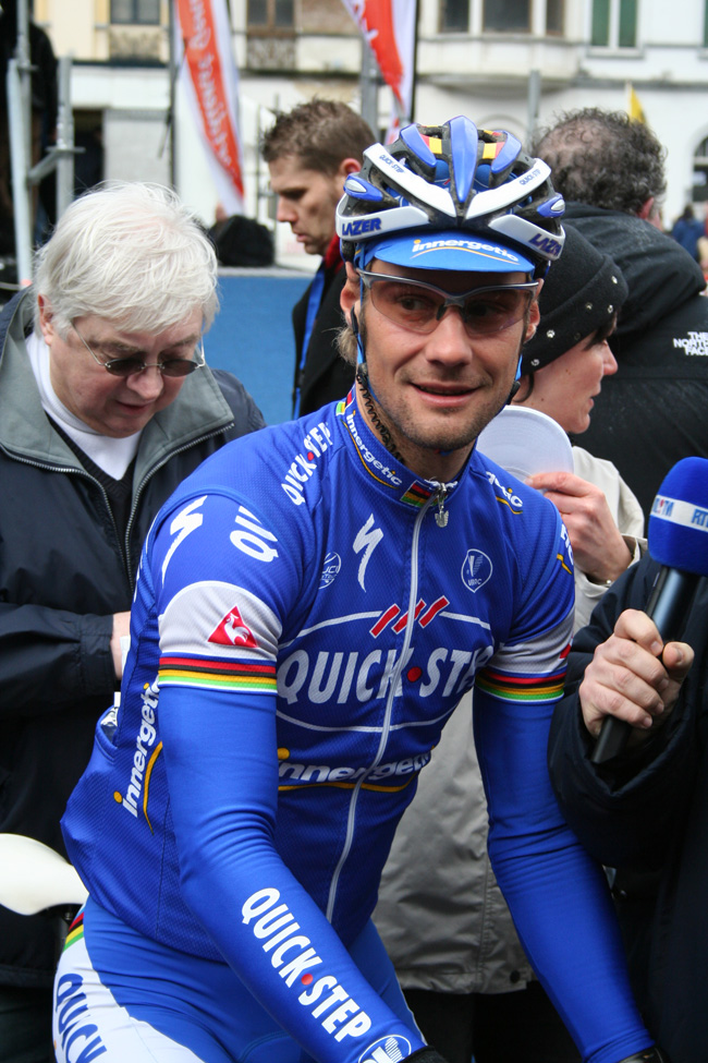 Tom Boonen interviewed at the start of Omloop Het Volk 2007.